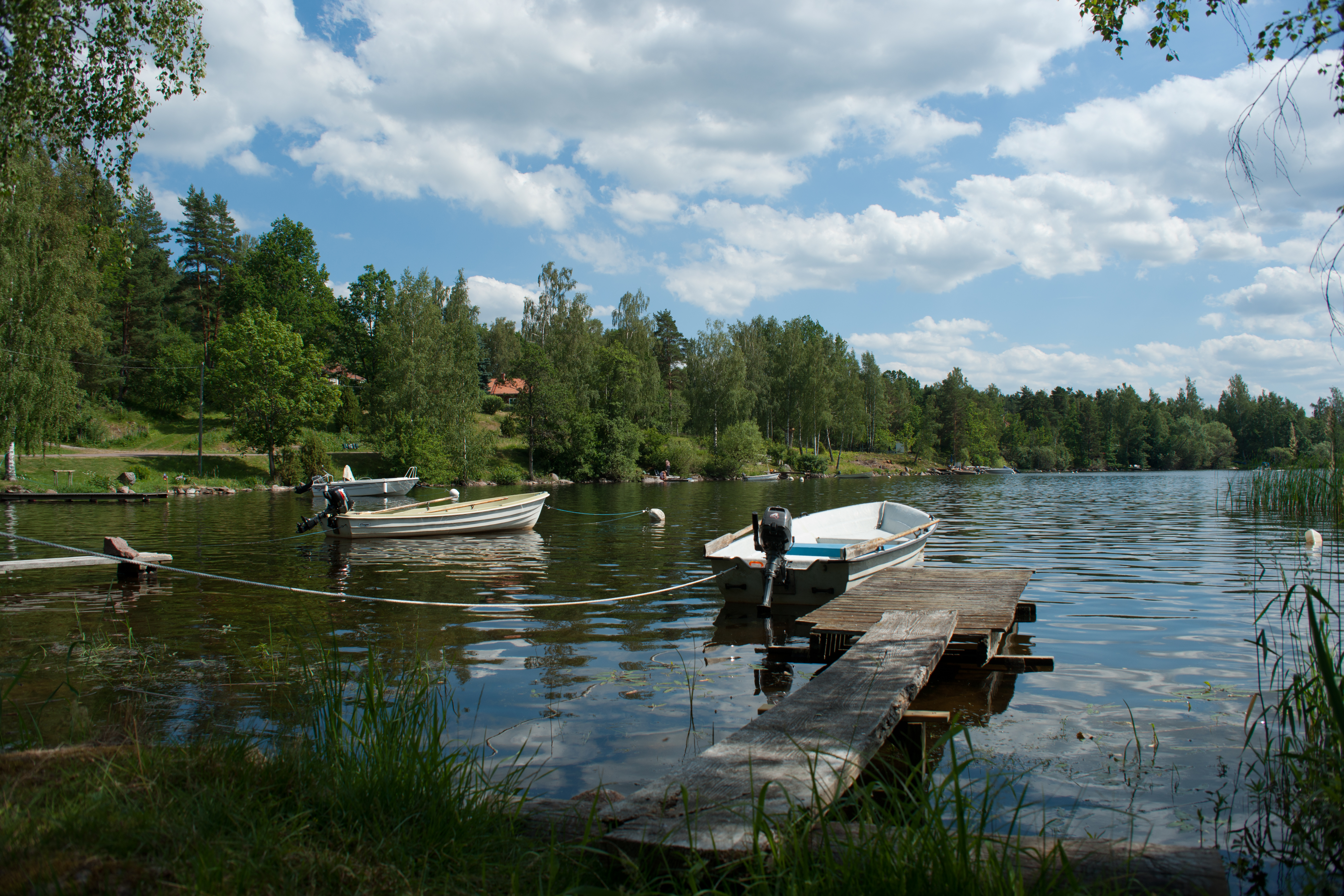 Lake Sommen, Sweden